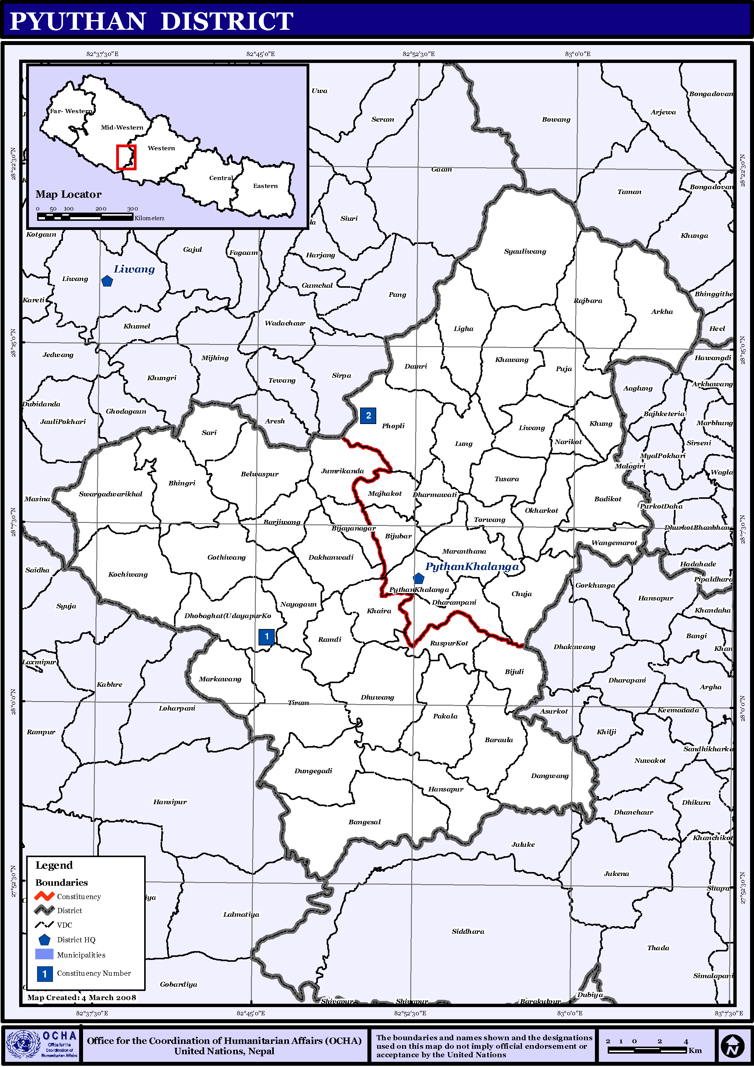 Map displaying Village Development Committees in Pyuthan District, Nepal